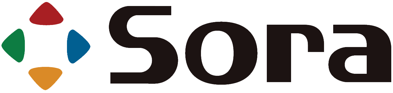 Simple typefaced logo from video game company Sora Ltd.|Sora Ltd.